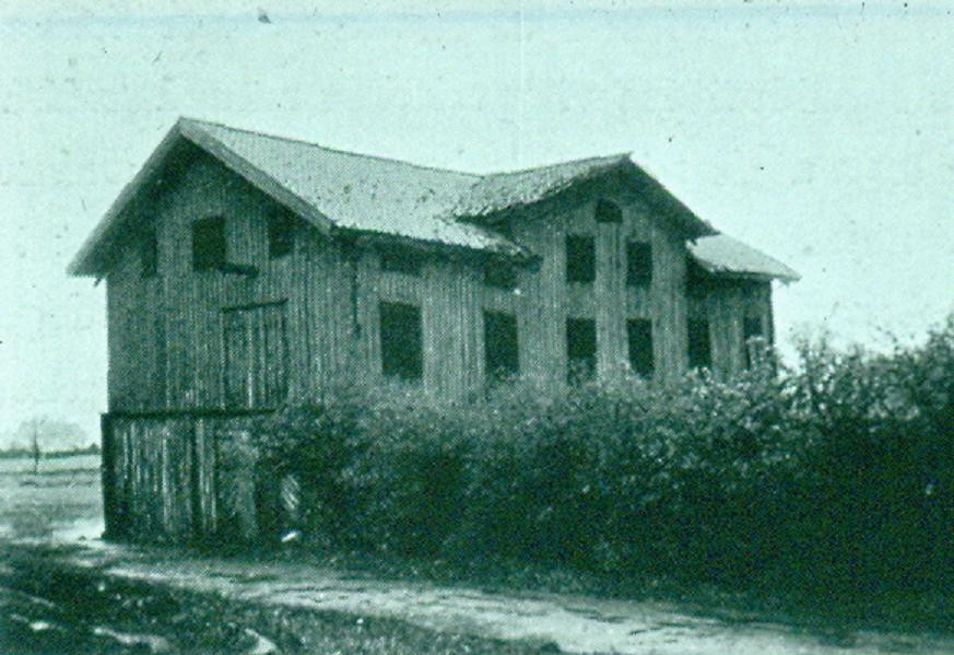 The seat farm Lindholmen just before its demolition 1920.